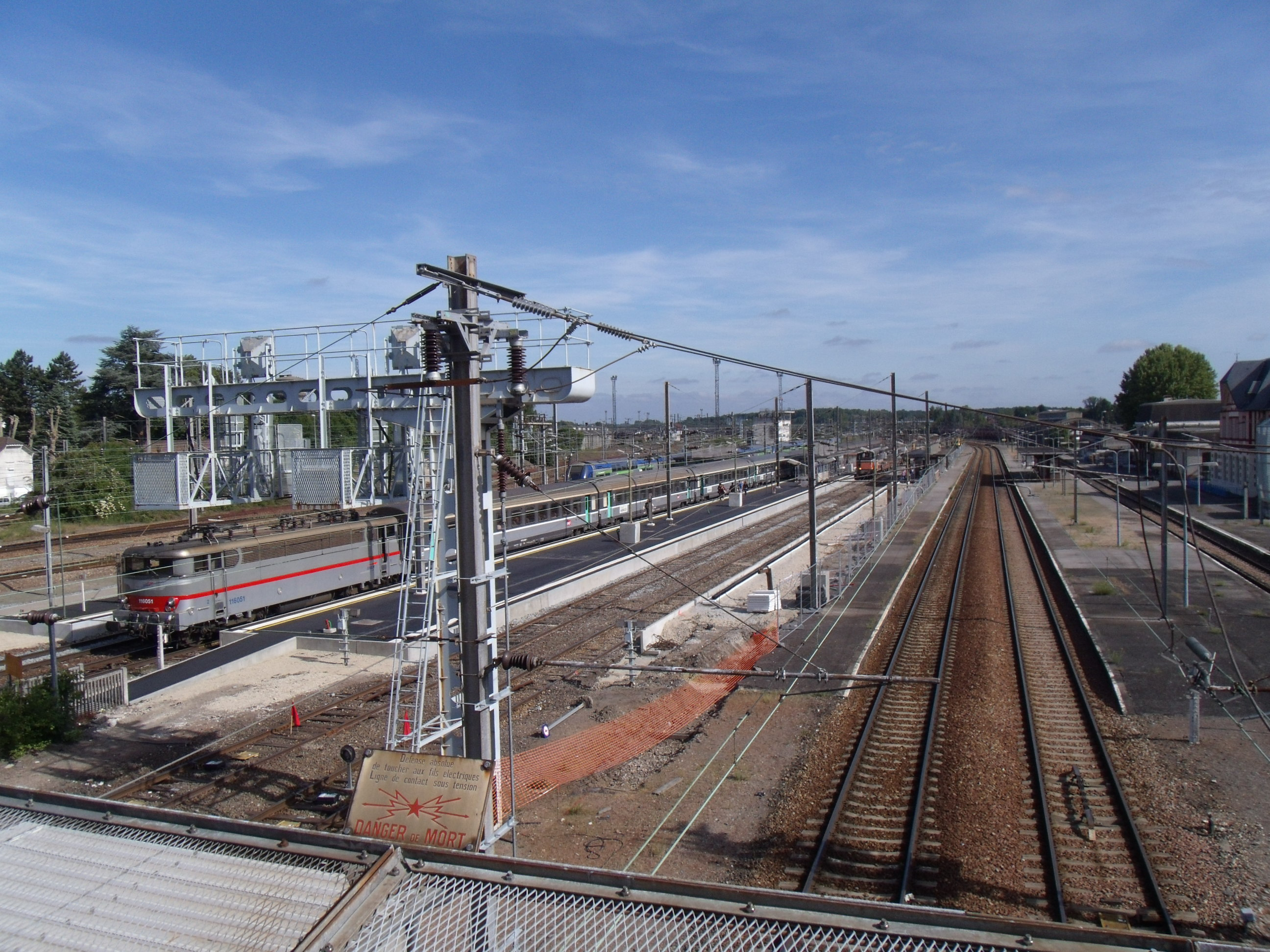 Tergnier station with SNCF class BB 16051 from Saint-Quentin to Paris-Nord